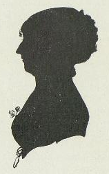 Anne Marie Abel, née Simonsen, mother of the Norwegian mathematician Niels Henrik Abel.